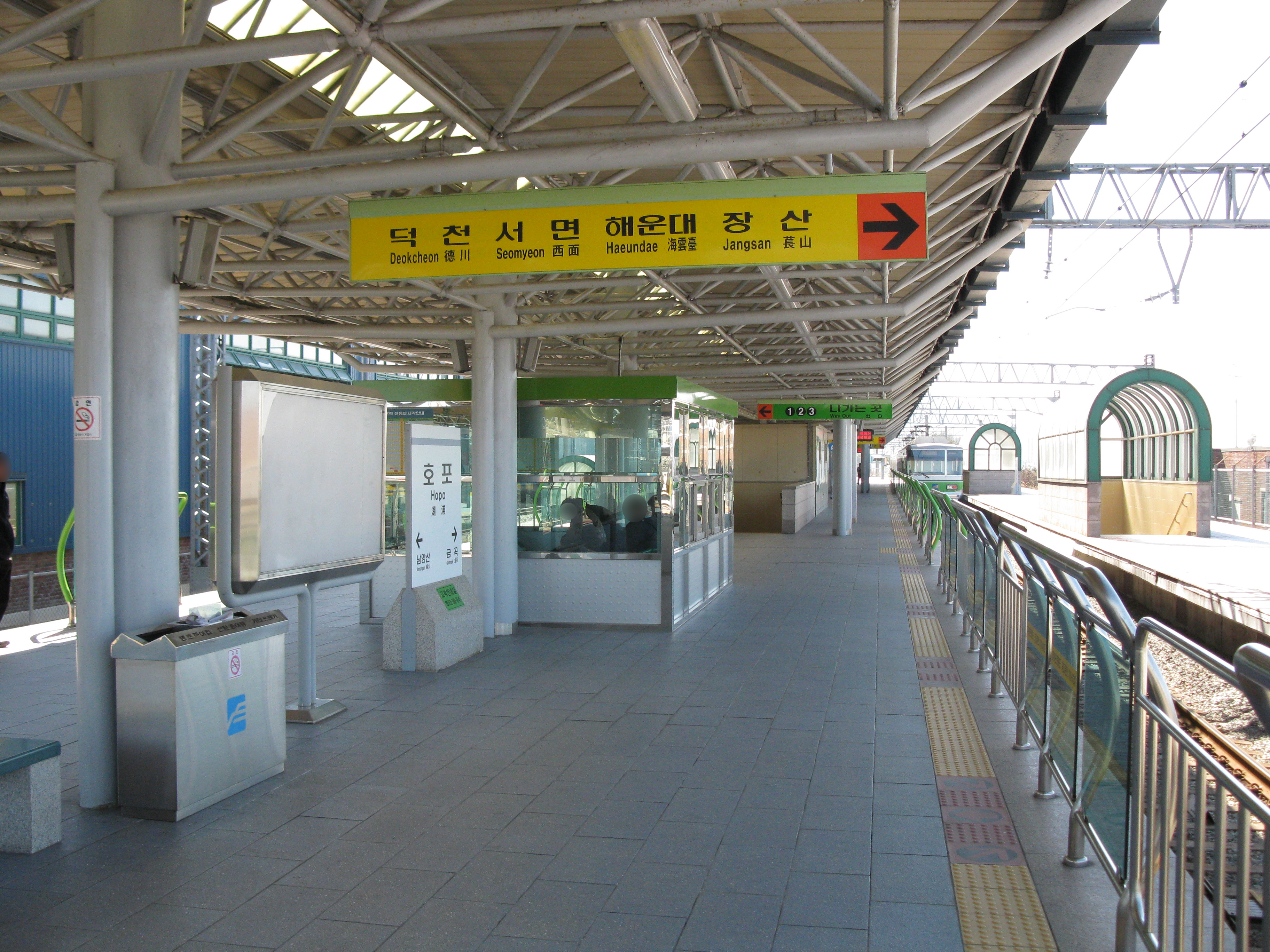 The platform at Hopo Station on the Busan Subway Line 2 in Yangsan city, Gyeongsangnam-do, Republic of Korea(South Korea)